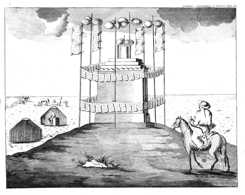 An obo, a sacred Mongolian site,usually marked by a pile of rocks and prayer flags. This monument honors a deceased Khoshot prince.